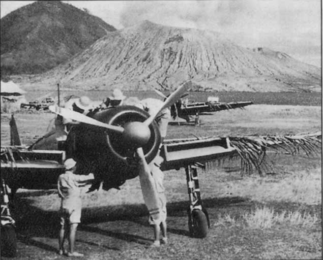 A Japanese Mitsubishi Zero A6M2 Type 21 fighter at Rabaul with the Hanabuki volcano as background. The volcano's continuous activity was a good visual guide for the pilots.